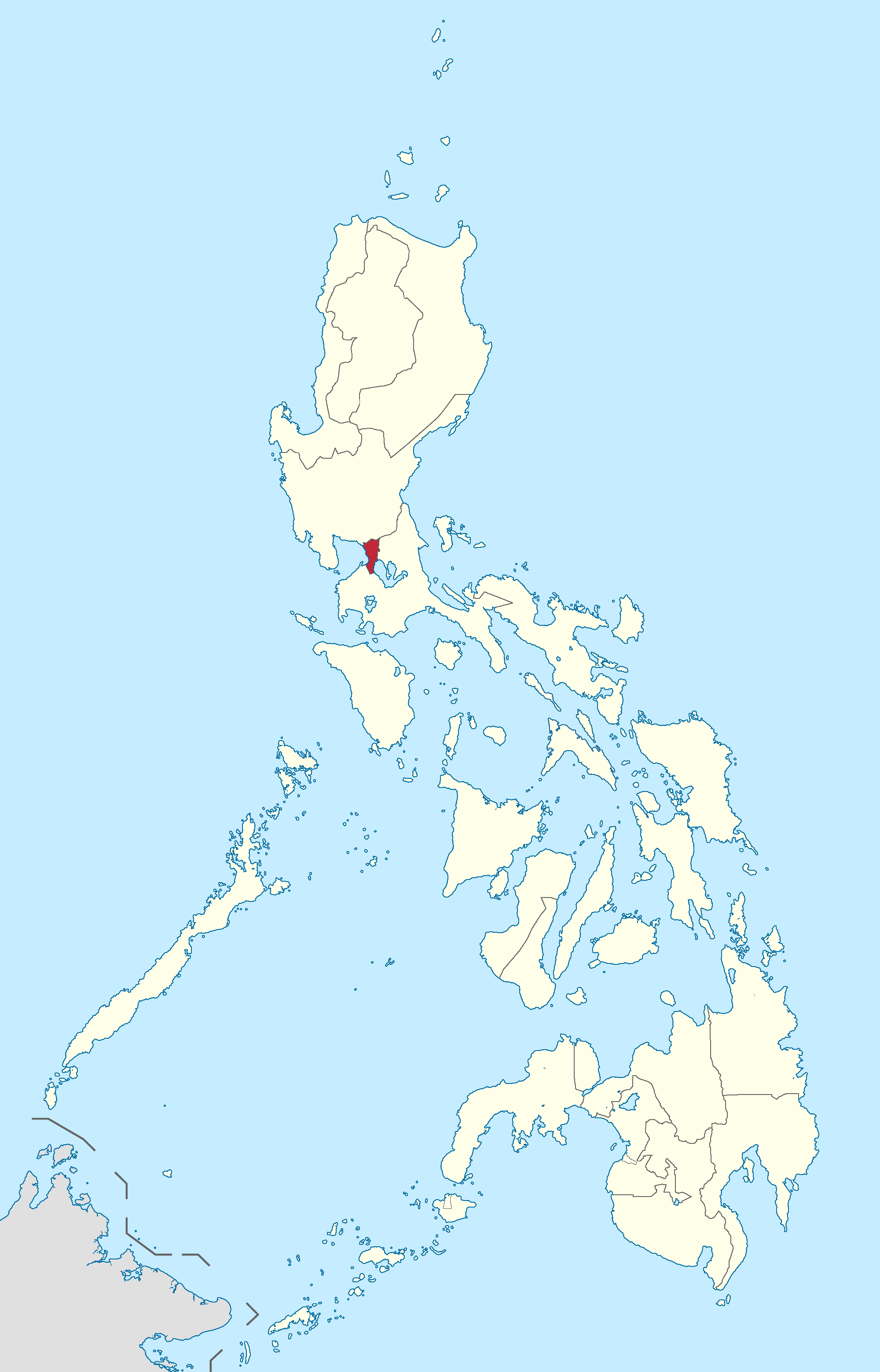 Location of the National Capital Region in the Philippines Filipino: Kinaroroonan ng Pambansang Punong Rehiyon sa Pilipinas.